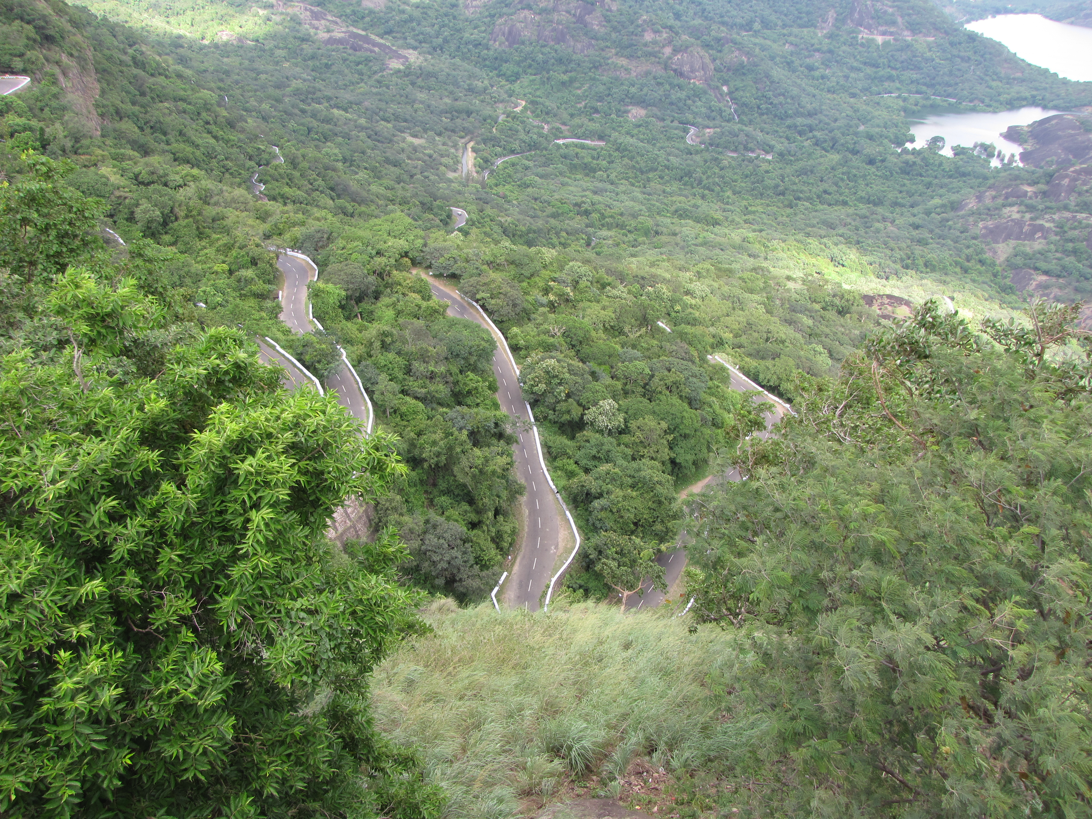 Road in Western ghats which connects Pollachi with Valparai